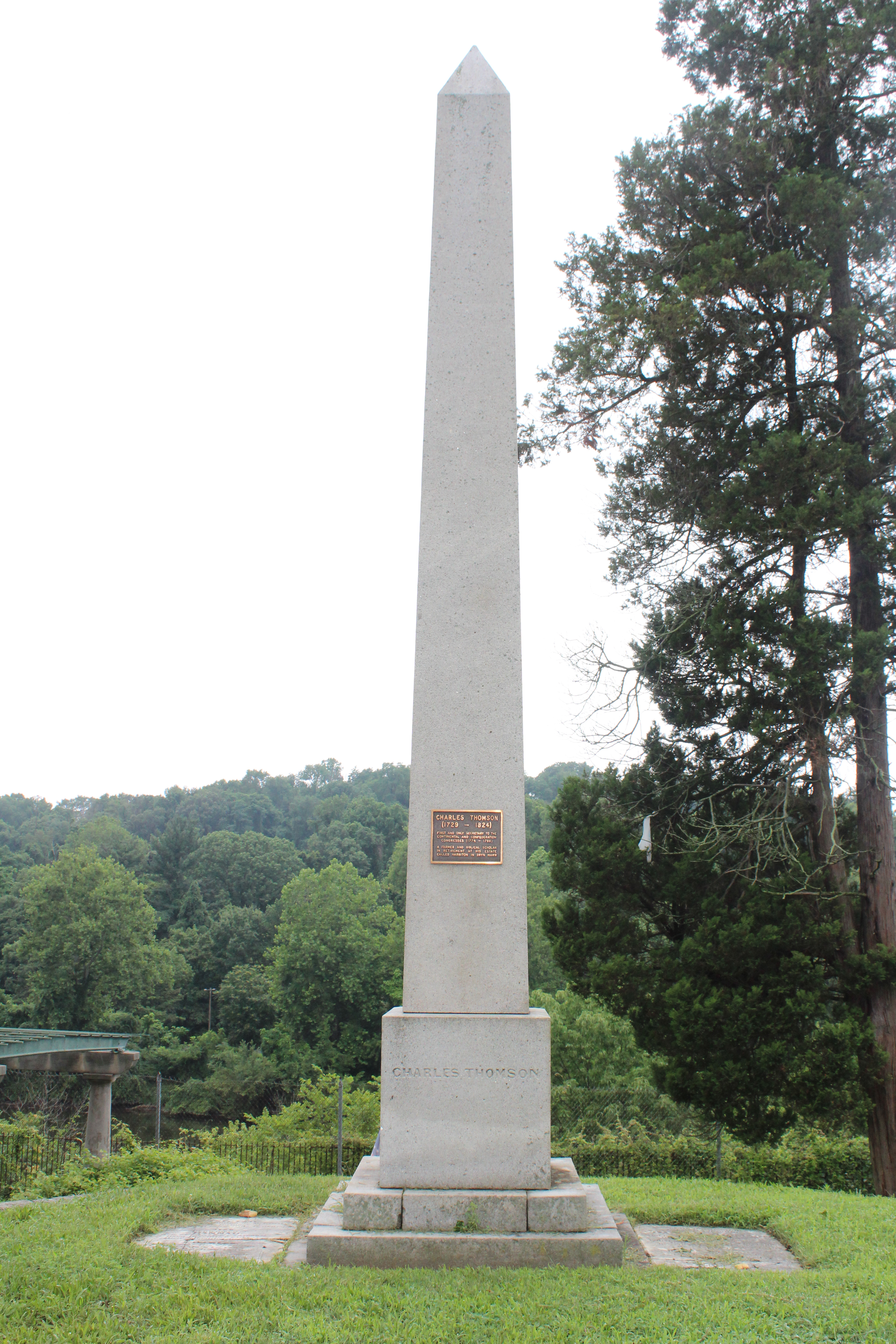 Charles Thomsen Memorial in Laurel Hill Cemetery. Photo taken July 2020.